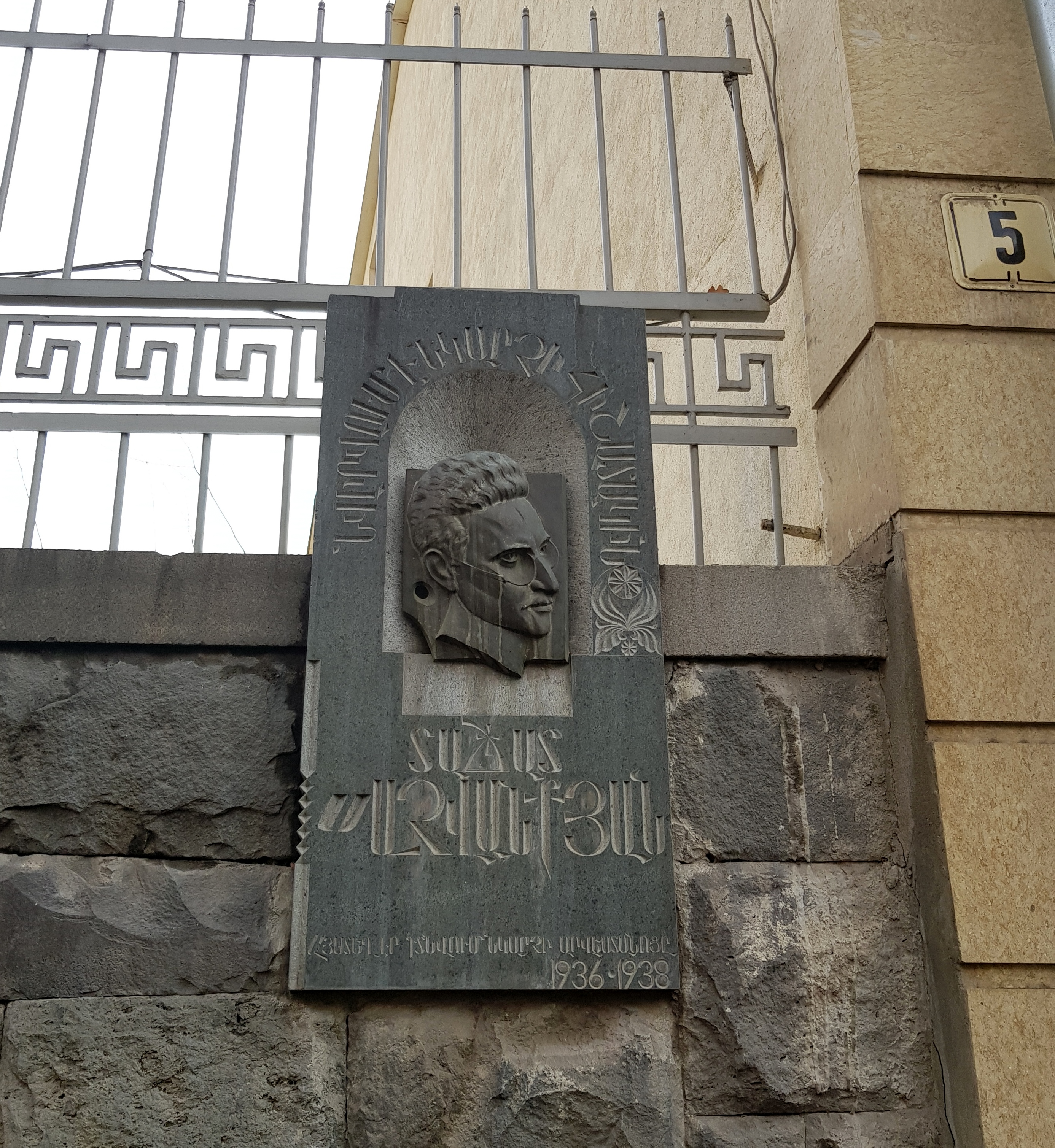 Plaque to Tachat Khachvankyan on Saryan street of Yerevan